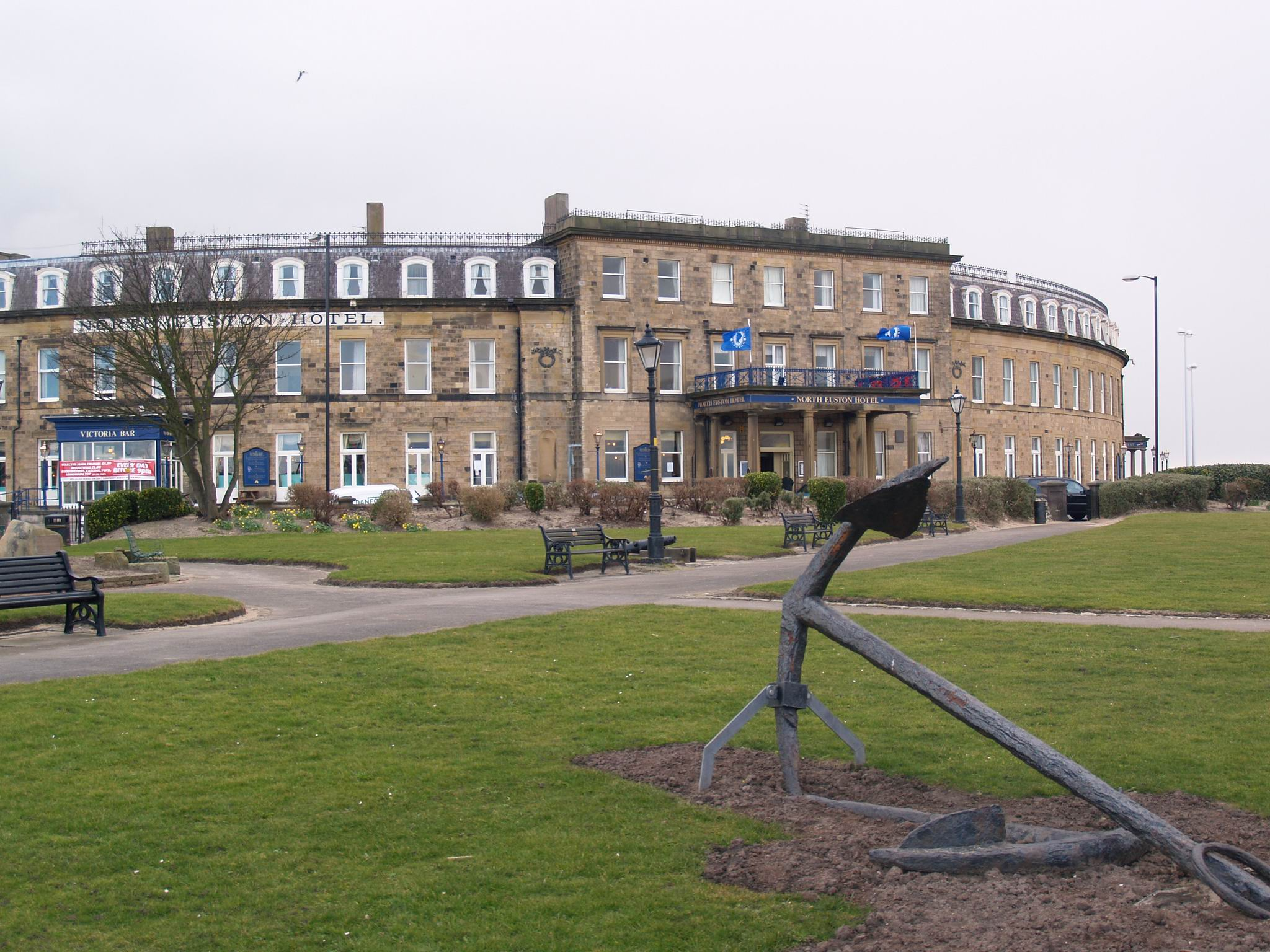 Fleetwood-Mar 2008-The North Euston Hotel (1841) from the Jubilee Gardens